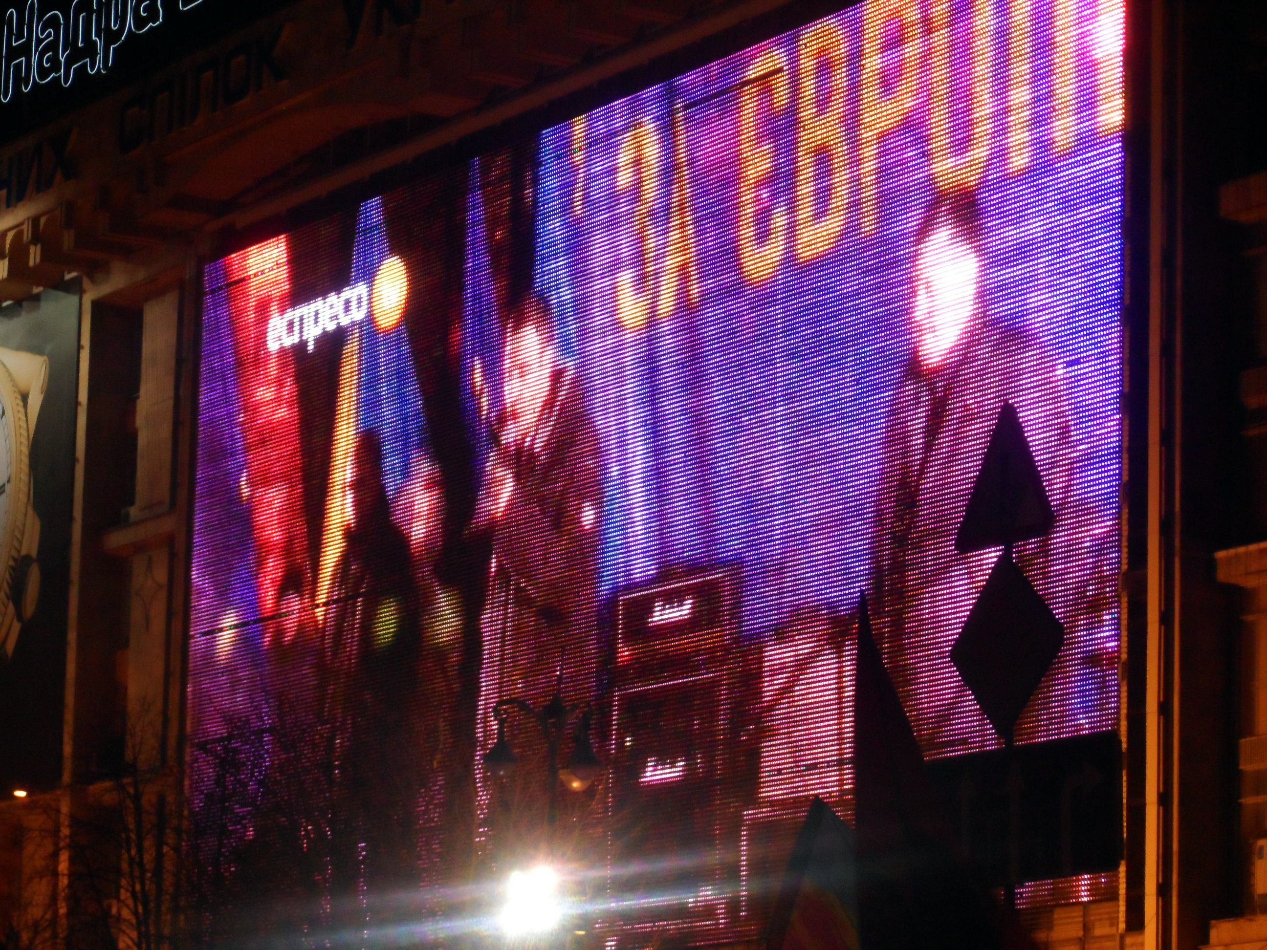 Advertising facade screen on the Trade Unions Building in Kiev, Ukraine broadcasts Vitali Klitschko addressing the crowds at the Maidan Nezalezhnosti Square, 19.27, 03.12.2013.